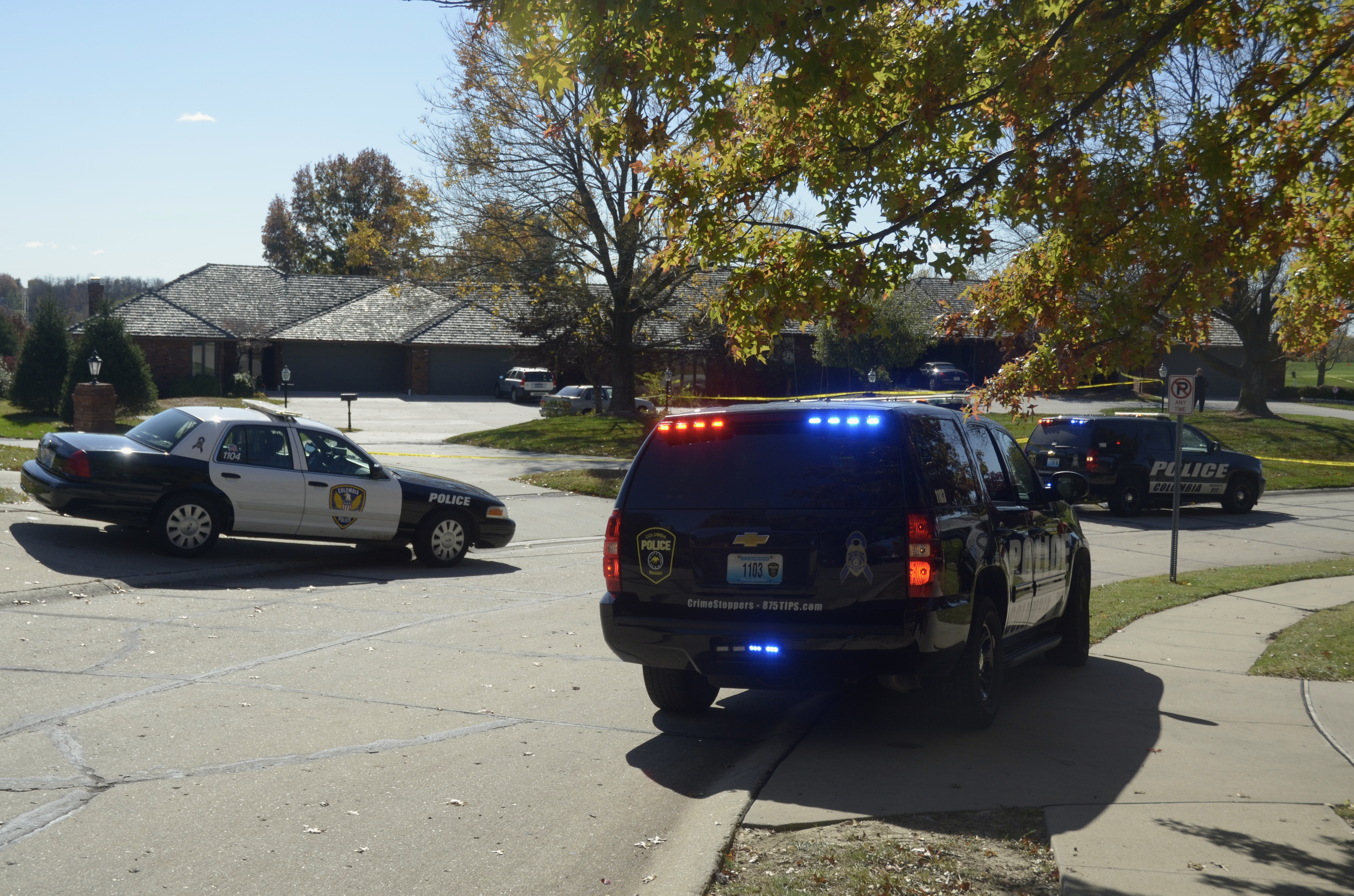 Police vehicles, Columbia, Missouri